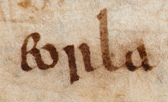 "eorla," (nobleman) a word from Beowulf, line number #1967. For the translation see Beowulf; a heroic poem of the 8th century, with tr., note and appendix by T. Arnold, 1876, p. 128.